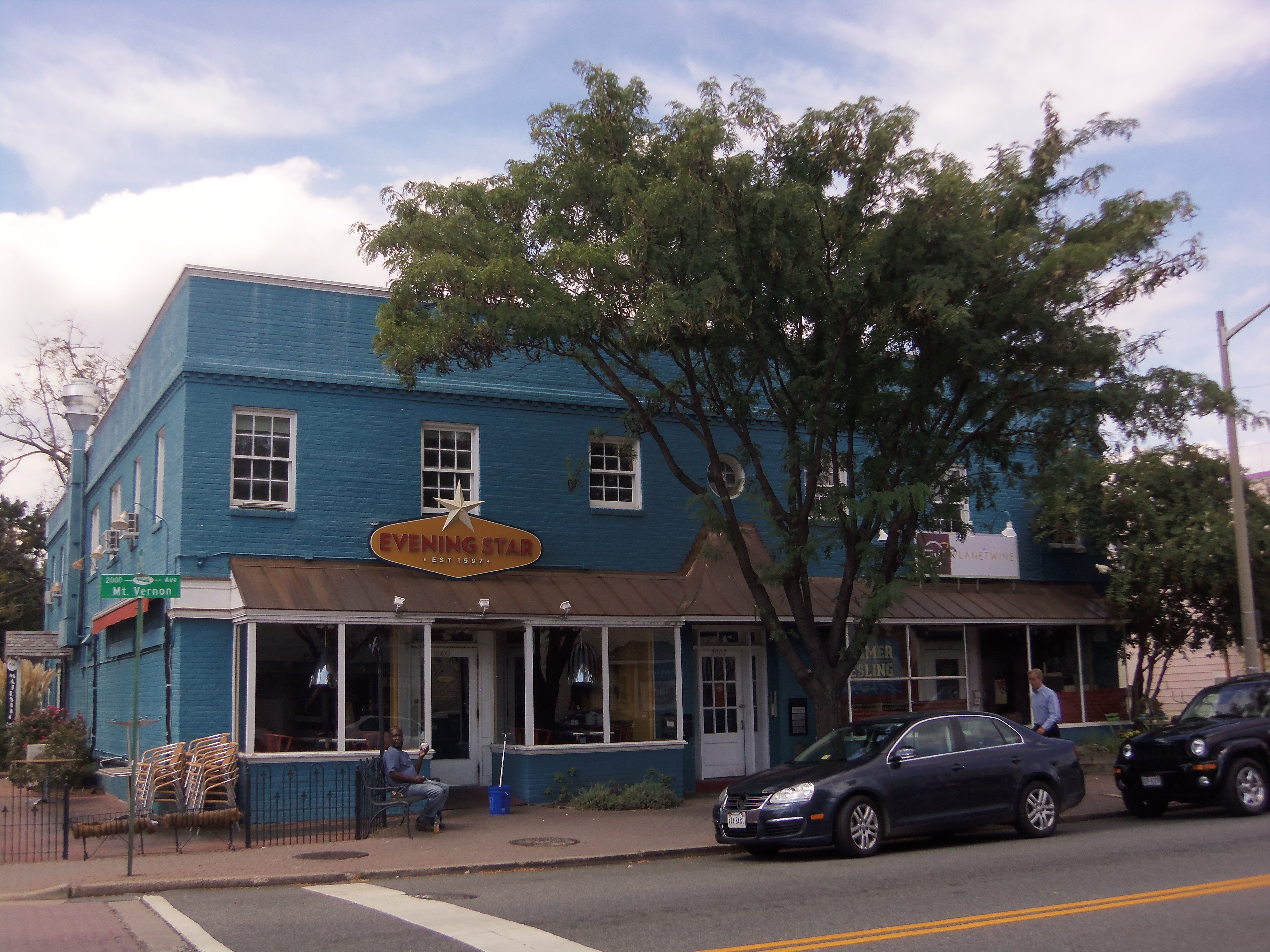 Town of Potomac, Roughly bounded by Commonwealth Ave., US 1, E. Bellefonte Ave. and Ashby Ave. in Alexandria, Virginia.